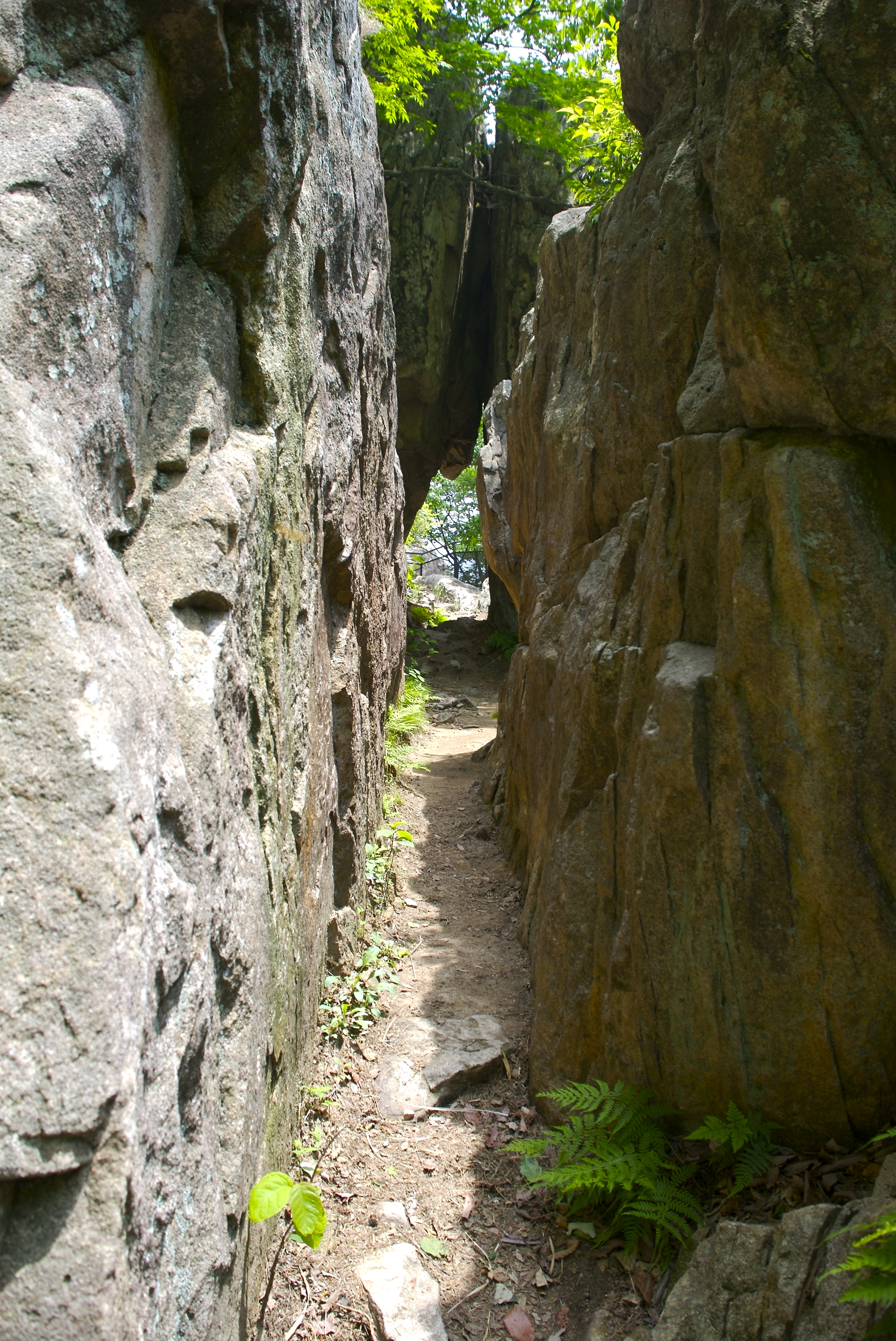 Photograph of Yongmun-gul at the mountain of Daedunsan in North Jeolla Province, South Korea. Despite being a natural tunnel that is open at both ends, a nearby sign calls this a cave.